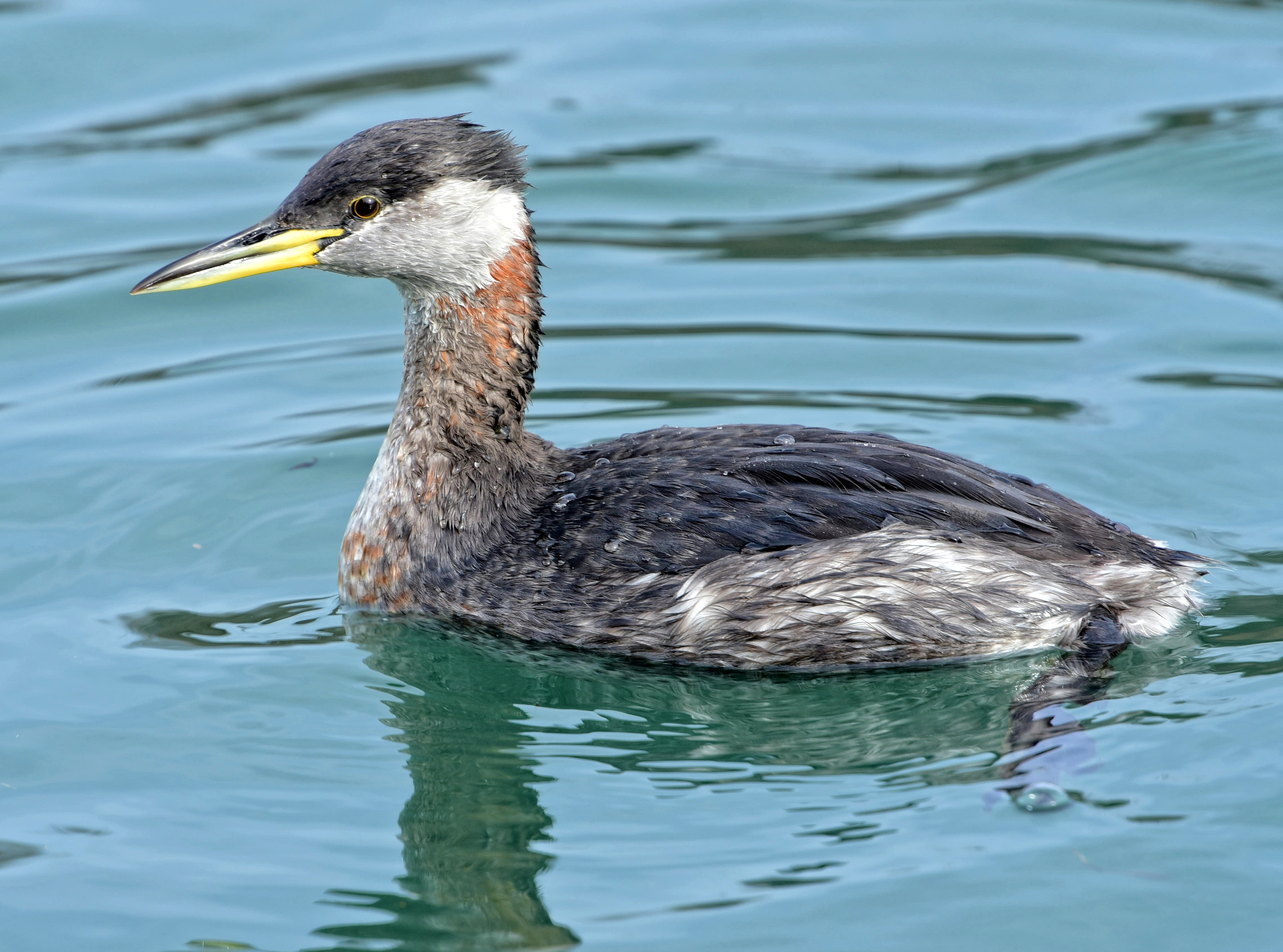 Red-necked grebe (Podiceps grisegena) before nesting in Humber Bay Park East, Lake Ontario, Toronto